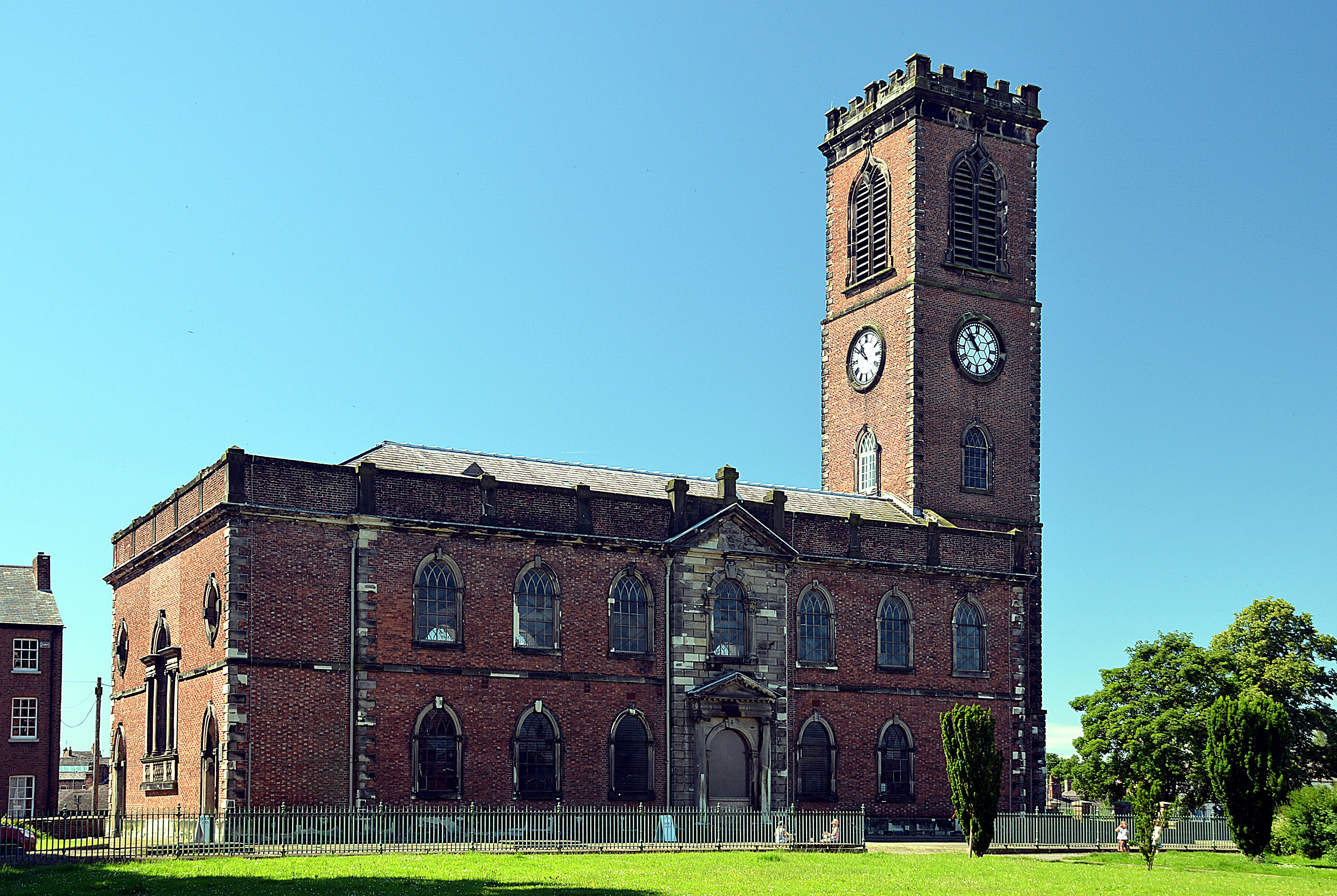 Christ Church, Macclesfield Wikidata has entry Q5108699 with data related to this item.